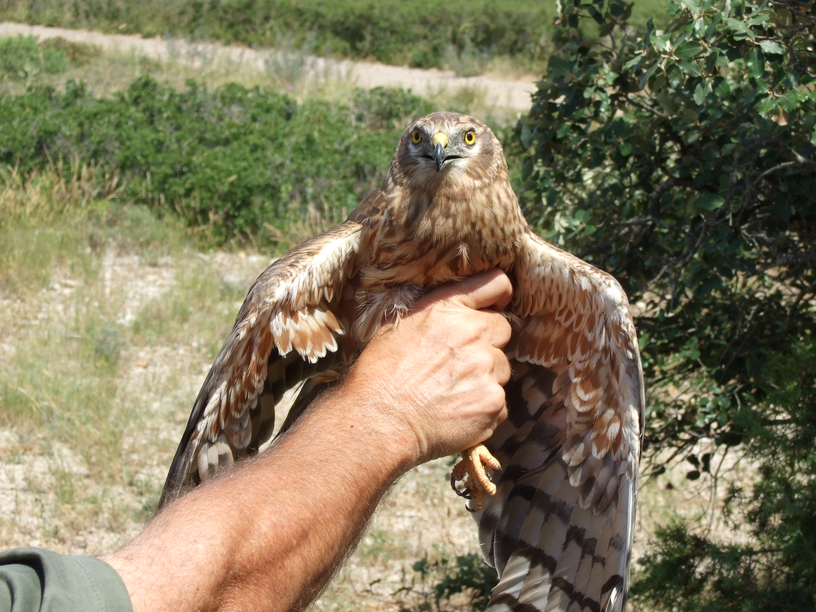 Female Montagu's Harrier (Circus pygargus) captured for ringing. Villeveyrac, France.